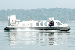 One of Indonesian Navy locally produced hovercraft